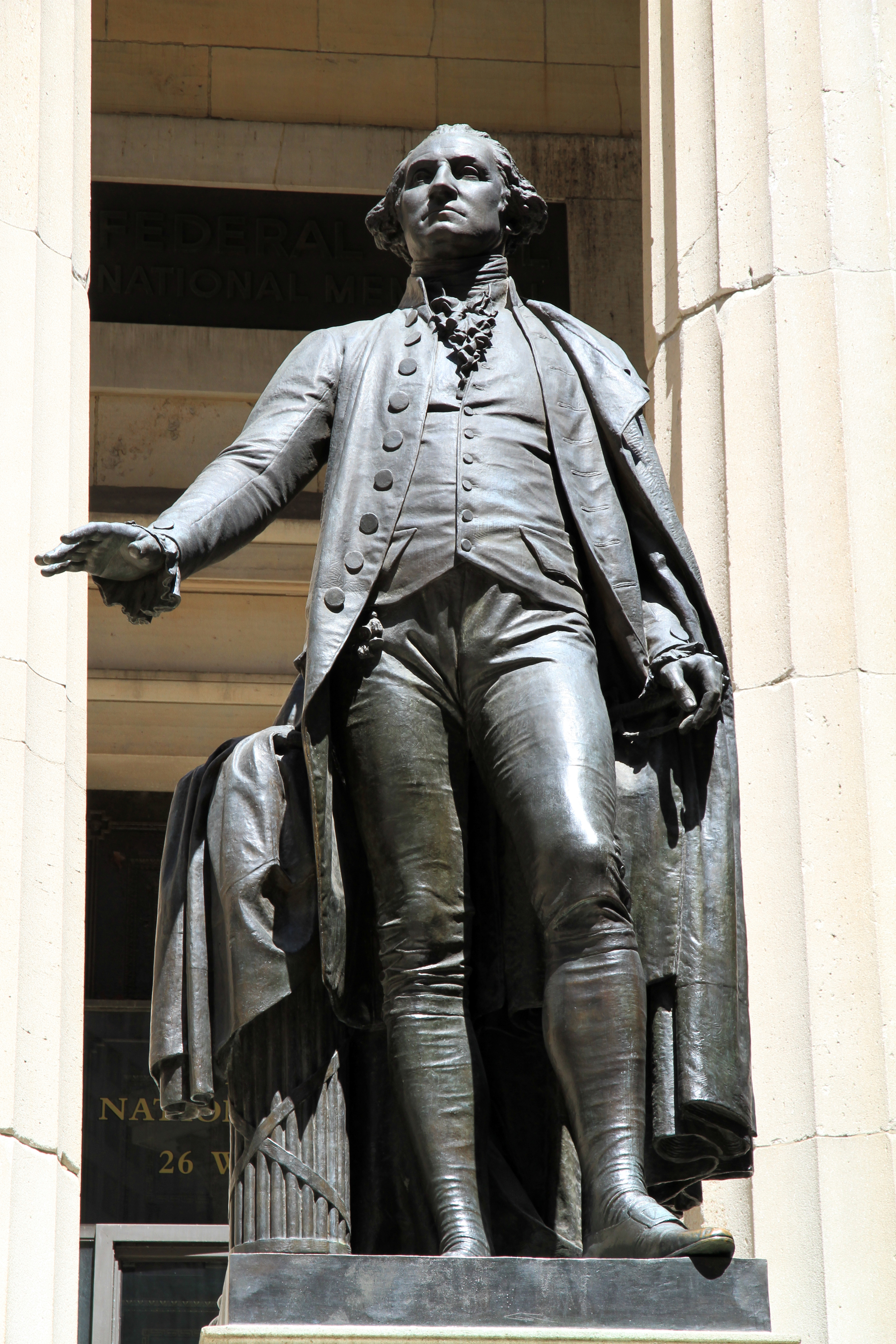 Federal Hall National Memorial